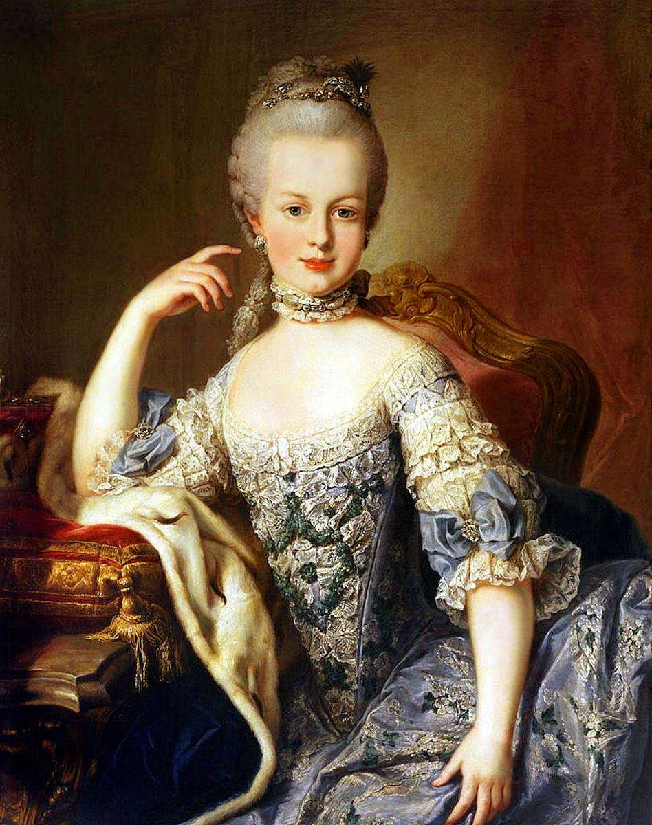 Archduchess Maria Antonietta of Austria